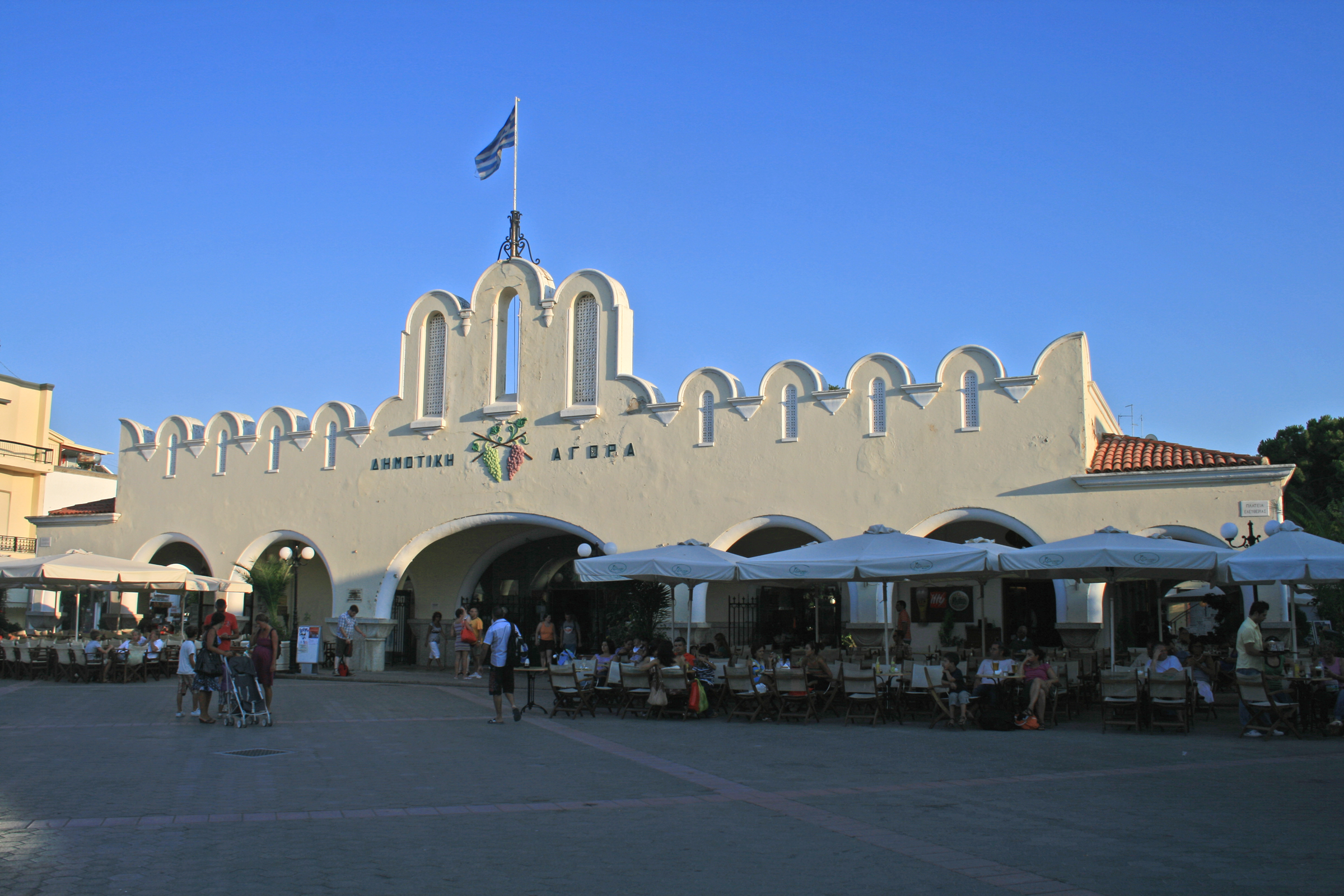 Building of old marketplace Agora in town Kos on Kos island, Greece